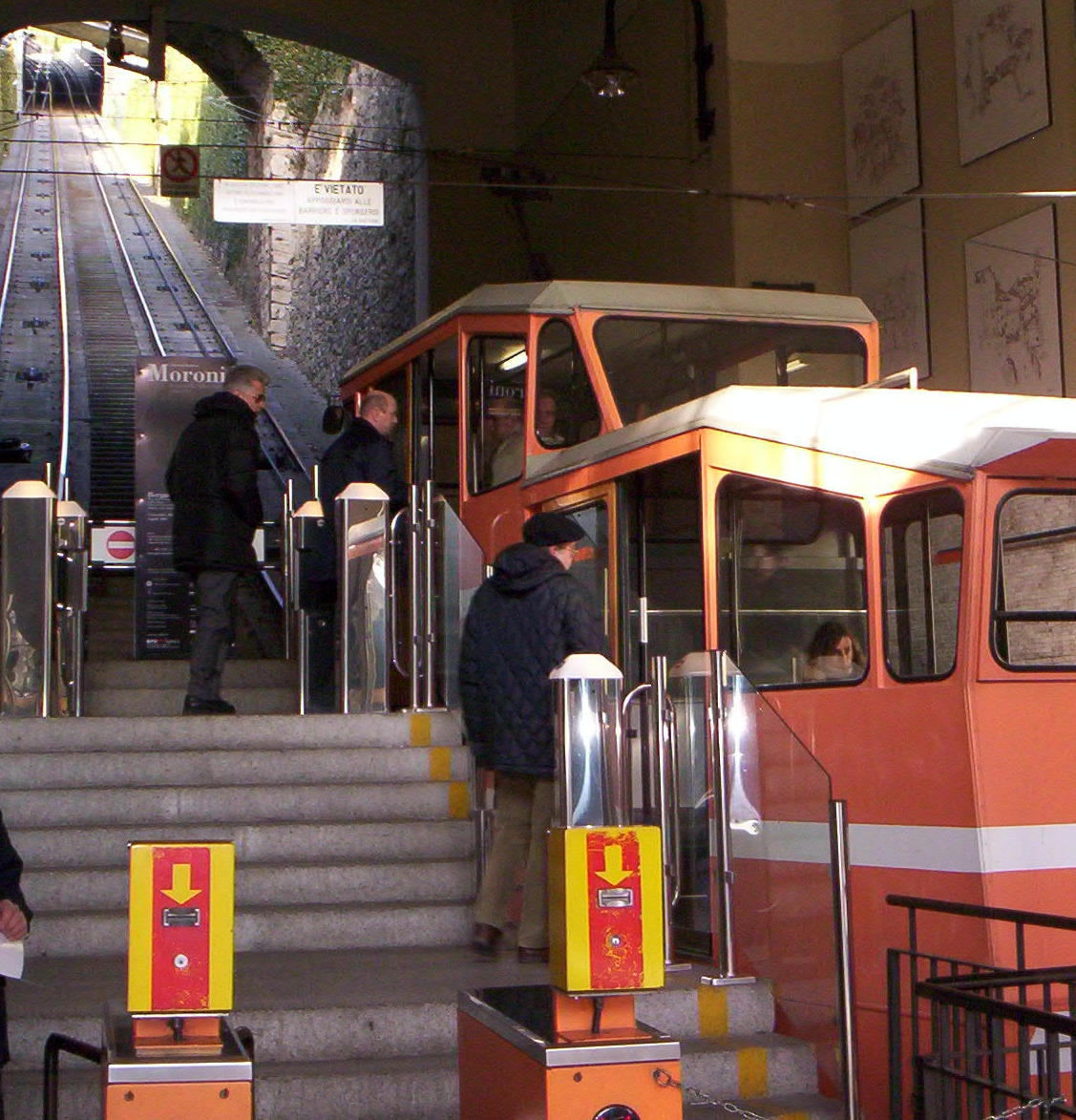 Bergamo, Lombardia, Italia - Funicolar